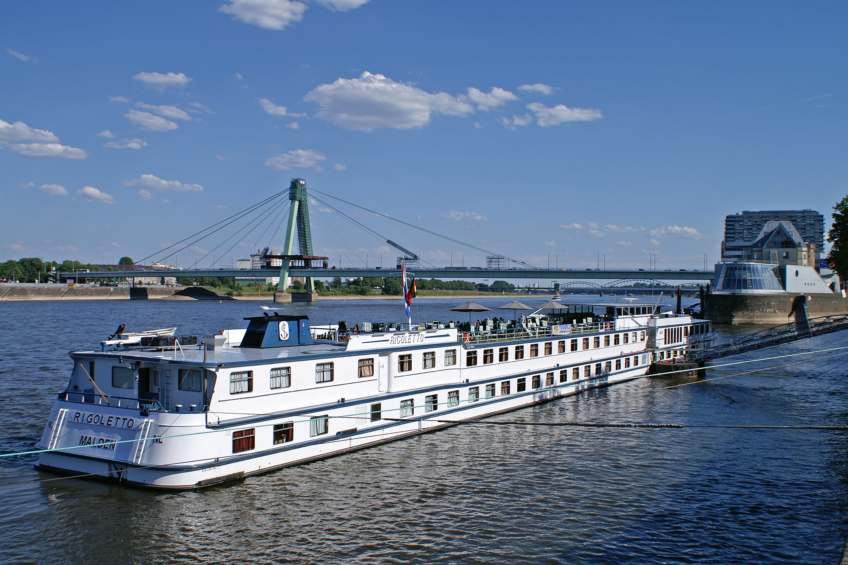 River cruise ship Rigoletto in cologne.